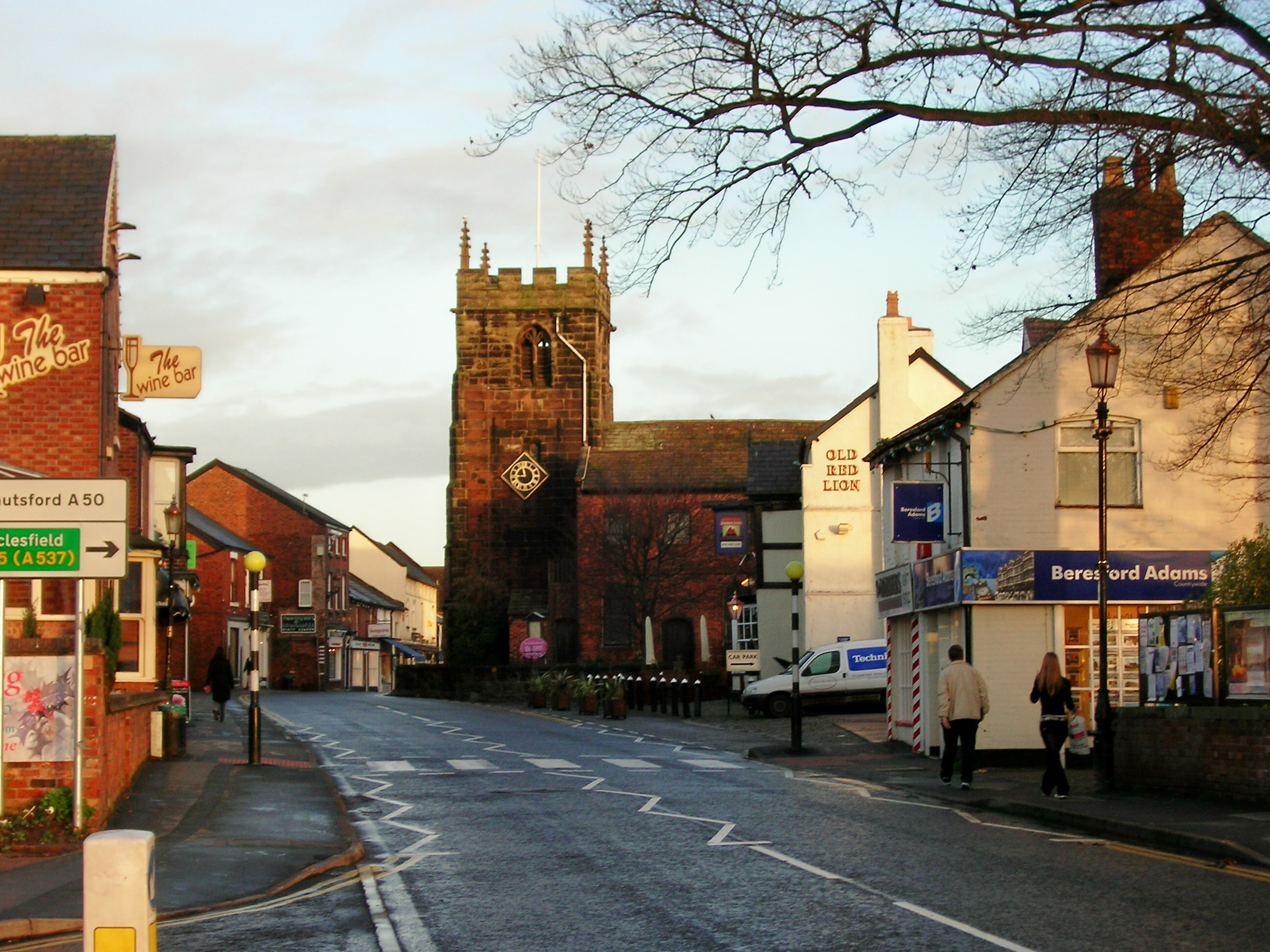 Holmes Chapel, The home of the one and only "Harry Styles","Cambrie Haegele",and "Riley McCowan".